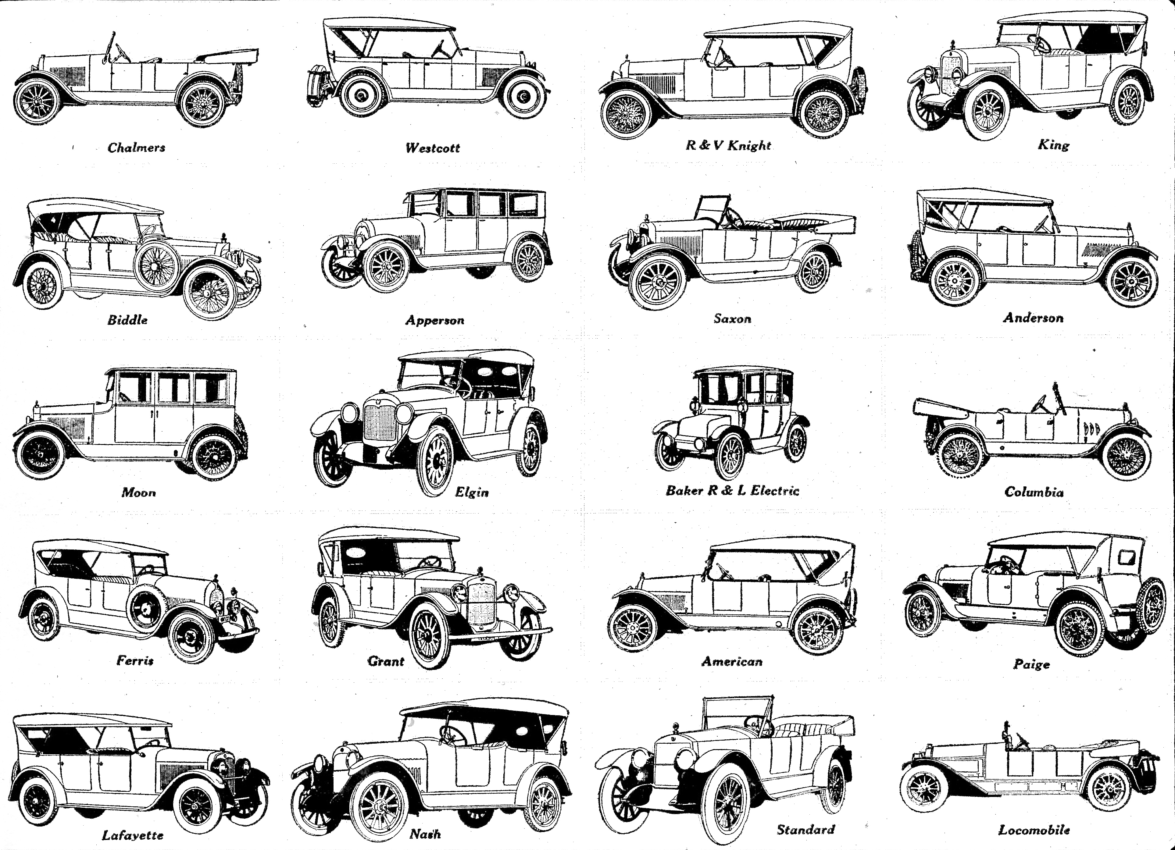 "These well-known cars, product of America's foremost manufacturers, have adopted Firestones as standard or optional equipment", the July 3, 1920 Country Gentleman ad stated. None of the 40 cars on these 2 pages are made today.